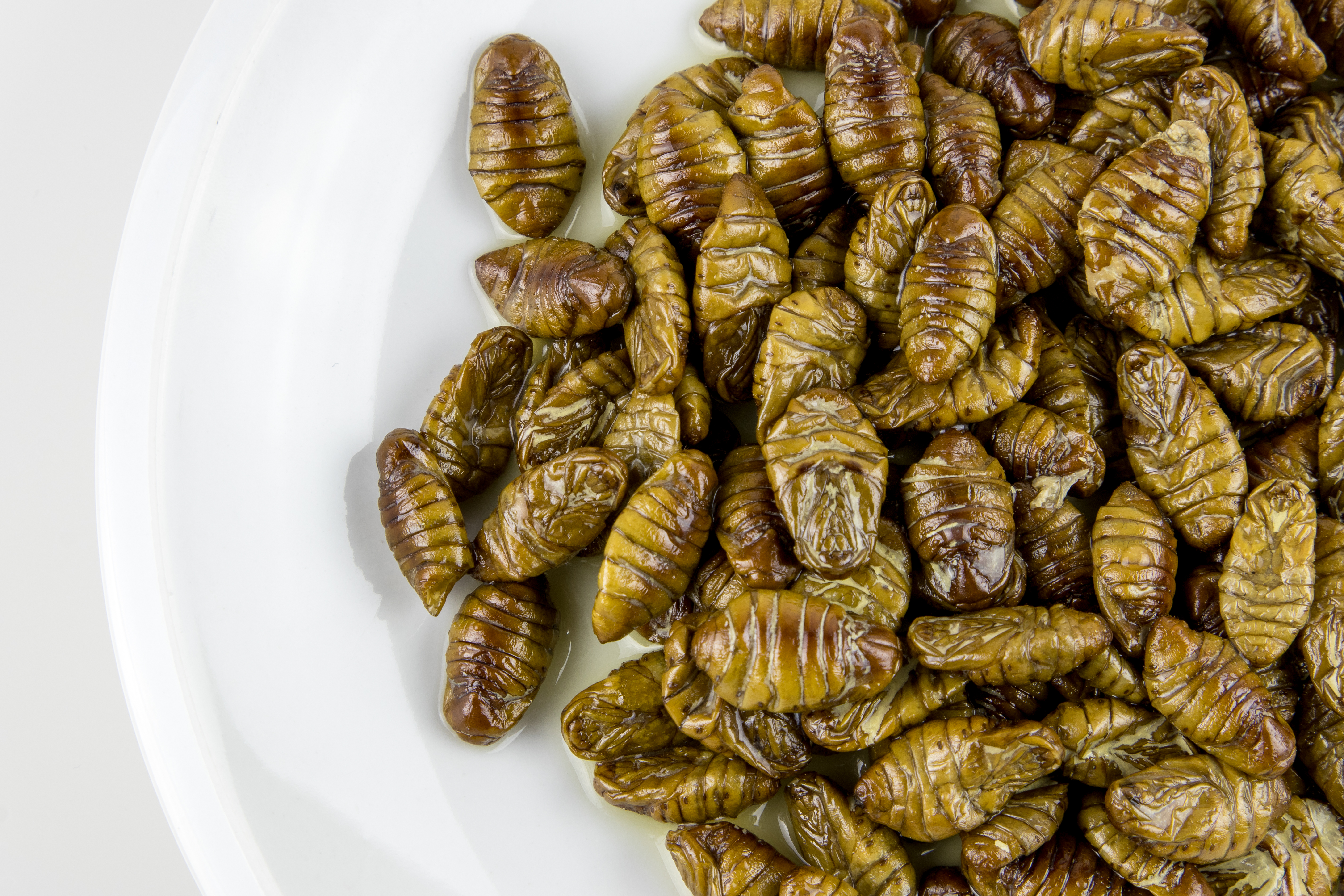 Bombyx mori as food (from a tin can)